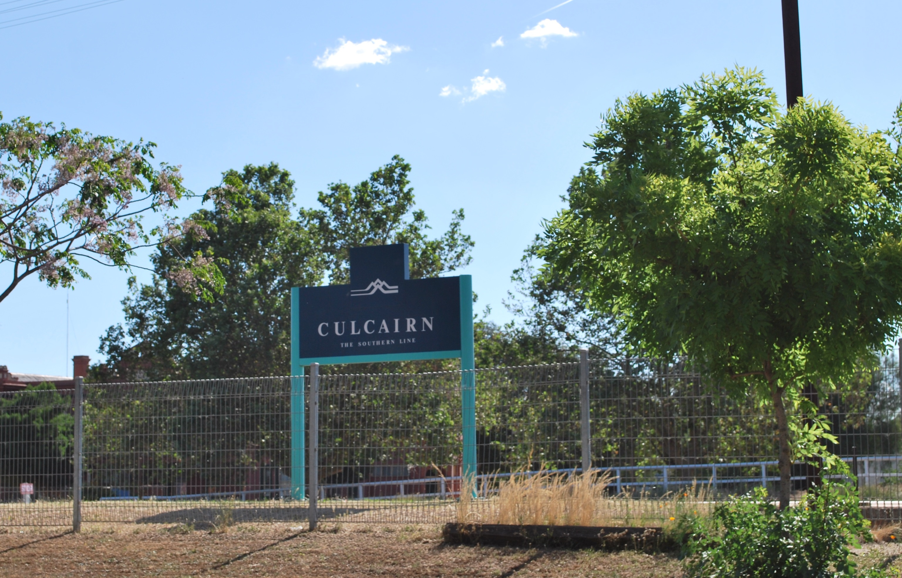 Sign for the train station at Culcairn, New South Wales